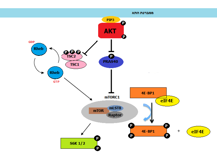 AKT mediated Cell growth scheme